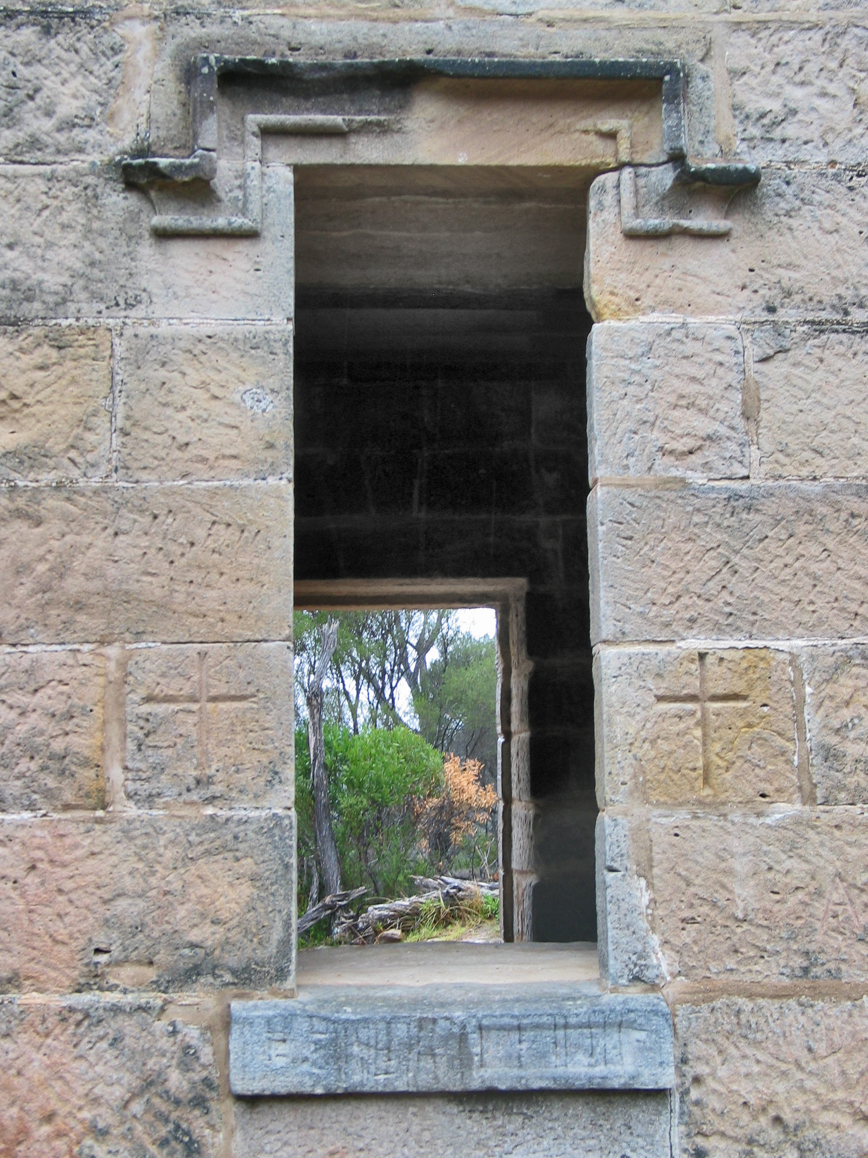 Window of Ben Boyd tower, Ben Boyd National Park, NSW Australia. Shows sandstone quarried in Sydney and masonry work, plus crucifixes. This tower was constructed by masons under the supervision of my ancestor Charles Helmrich.